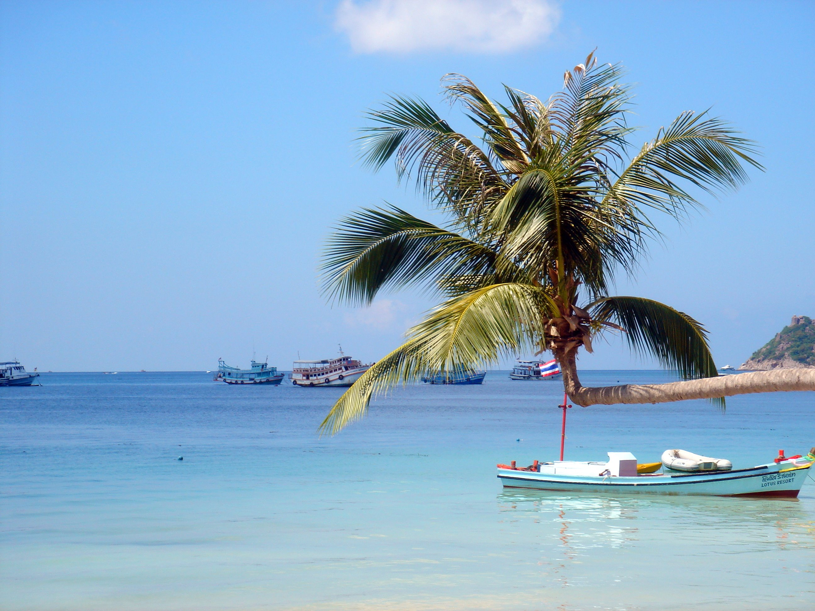 Beach on Ko Tao, Thaland (Am Strand von Ko Tao in Thailand)